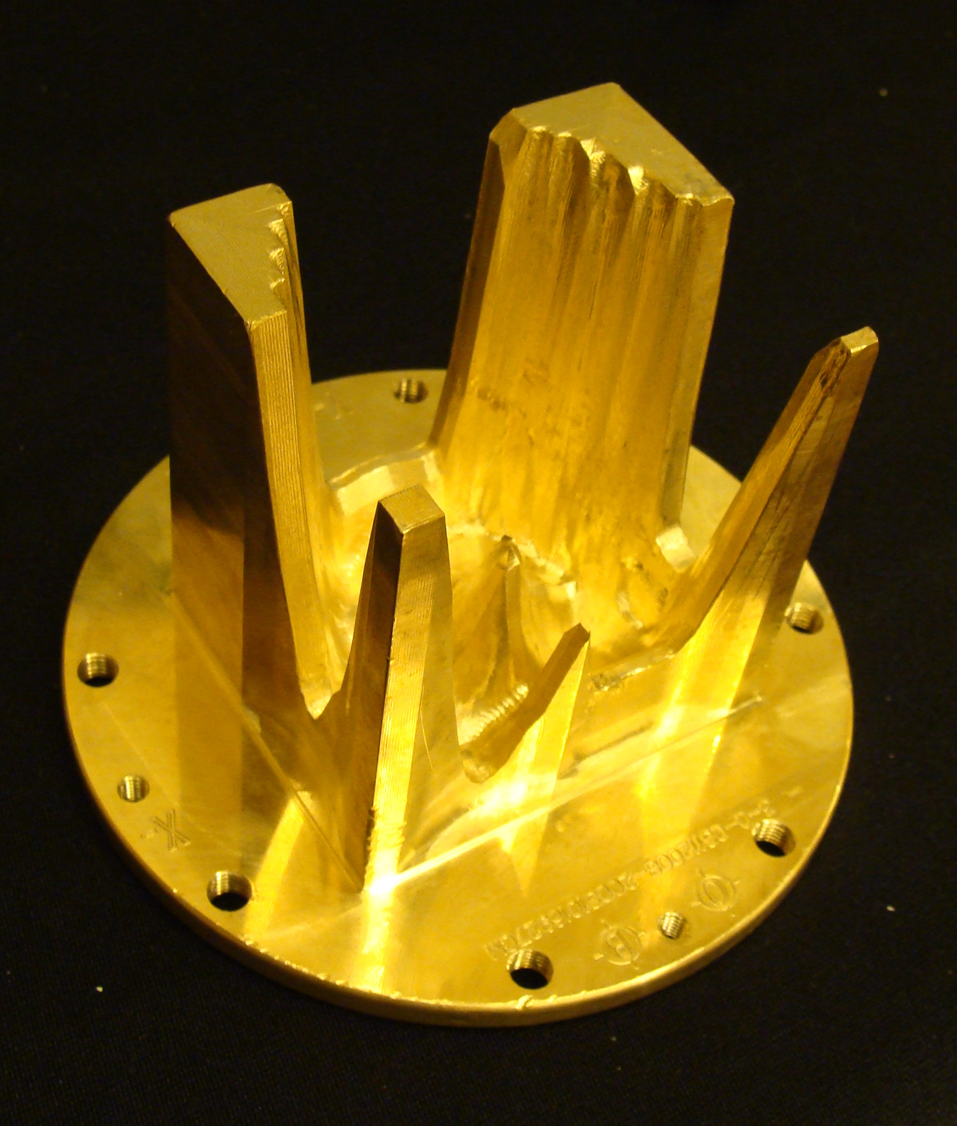 An IMRT compensator used for Radiation Therapy. It is constructed by decimal inc. It can help deliver a safer (lower dose), more precise or better IMRT treatment with solid IMRT than the more conventional MLC IMRT.